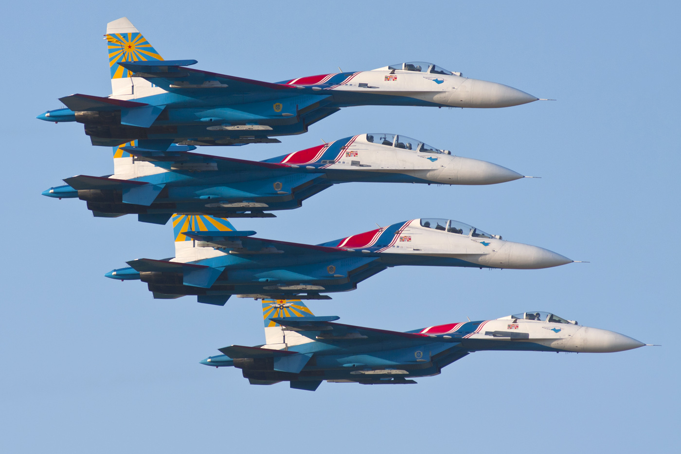 The Russian Knights Performing early evening at the Kecskemet airshow in Hungary, 2013. Look at the size of the pilots: the last Flanker is flown by a giant! :-)